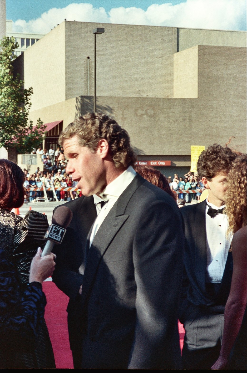 Ron Perlman during the 1989 Emmy Awards.